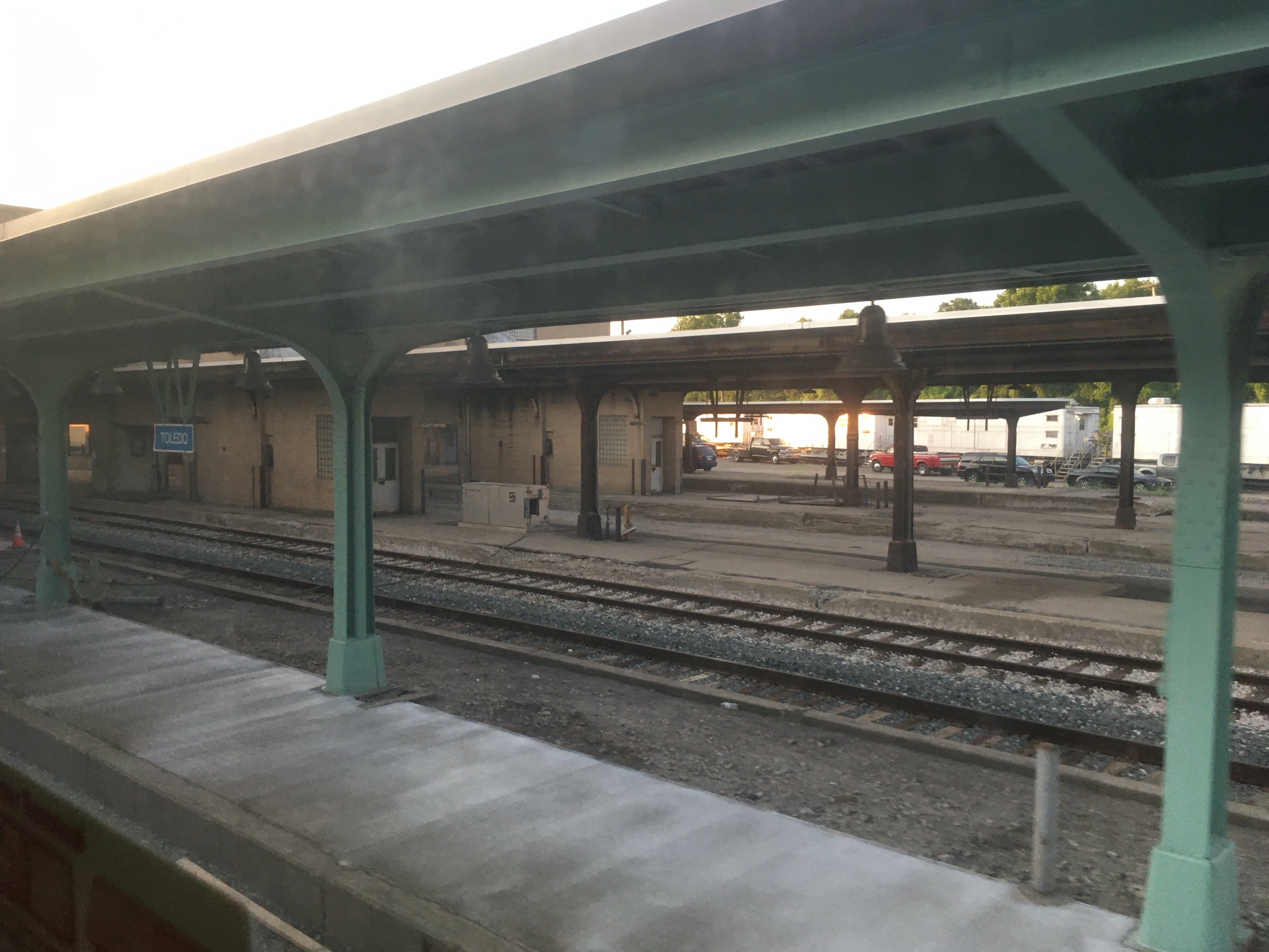 Toledo station, abandoned platforms